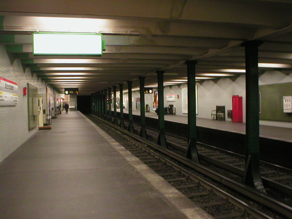 Platform of the Berlin underground station Kaiserdamm, line U2